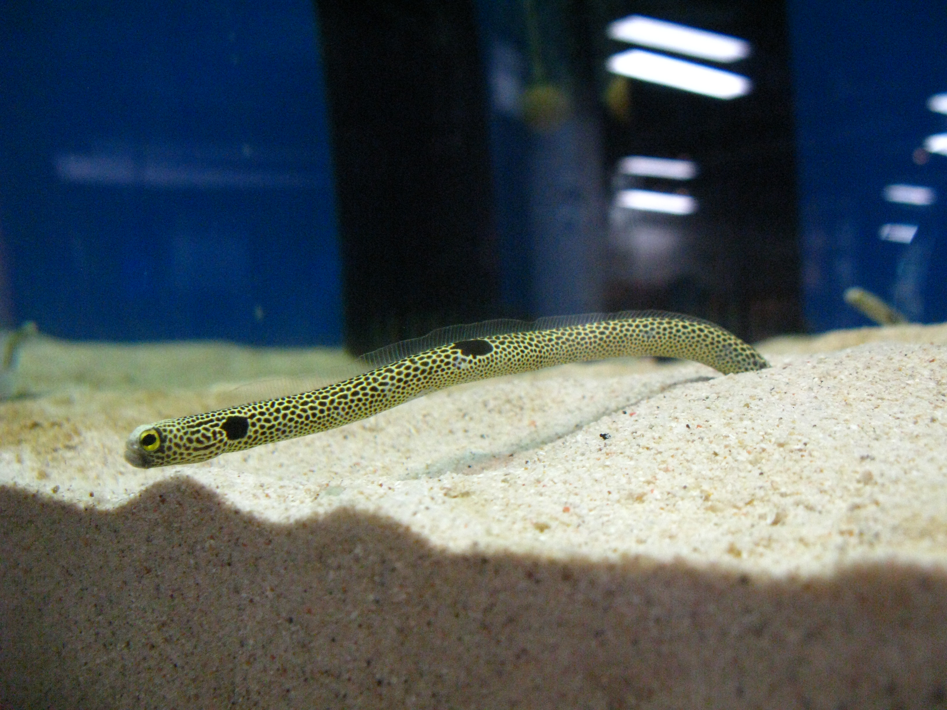 Scientific name Heteroconger hassi